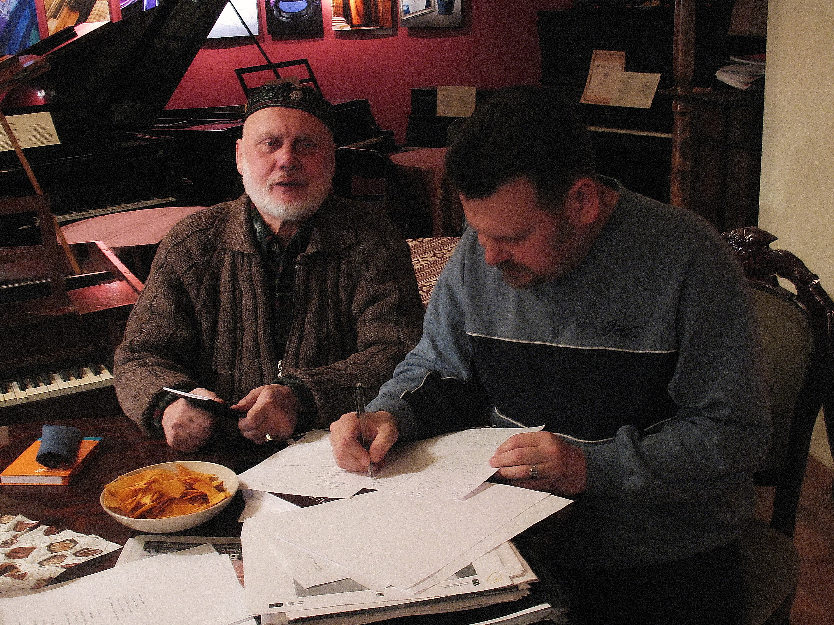 A Przybielski & J Pijarowski during "Stacja życie" session